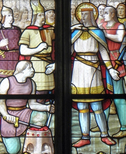 Breton king Solomon (right) with men seem to be Normans, the Norman leader (left) could be Hasting (Hastein)